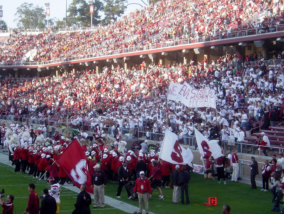 The Stanford Band rallying fans at Stanford Stadium. Photo taken by Bobak Ha'Eri, on November 4, 2006. Please observe license and properly cite in use outside Wikipedia.